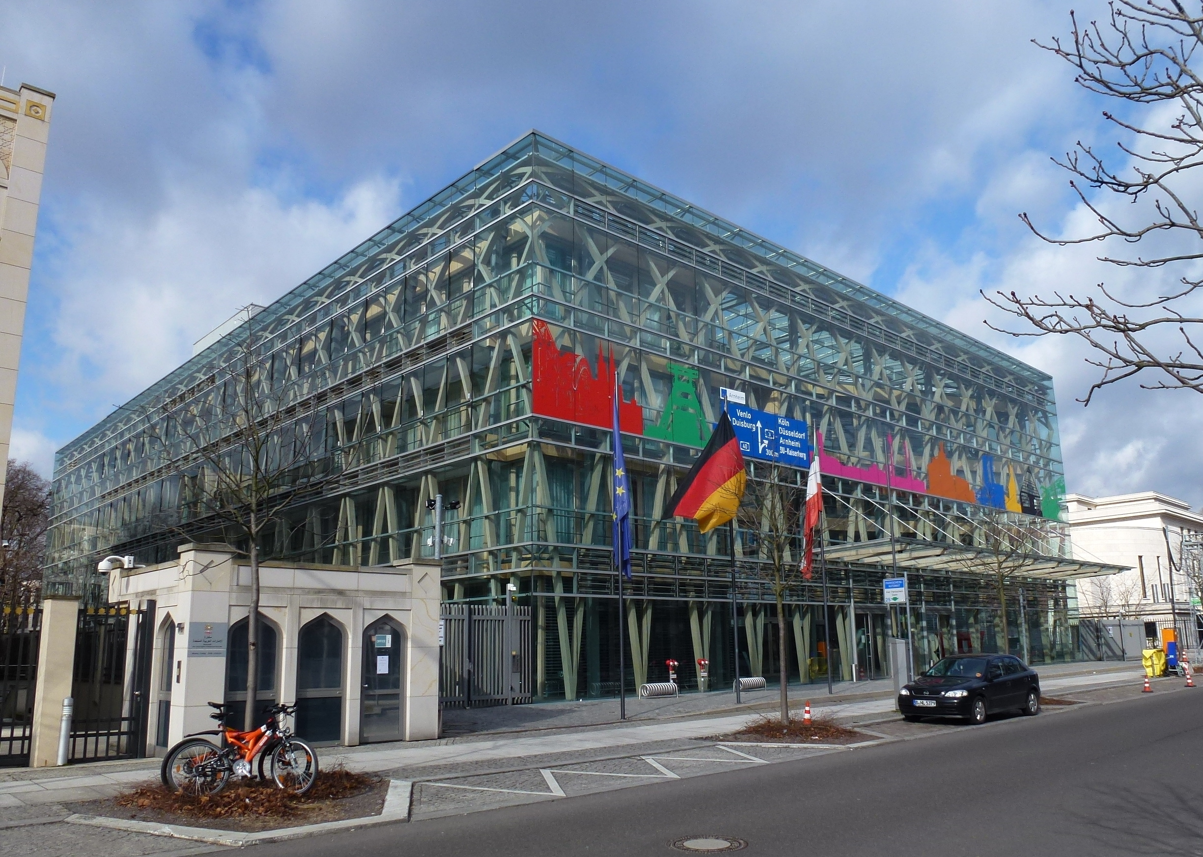 Berlin-Tiergarten Hiroshimastraße LV NRW